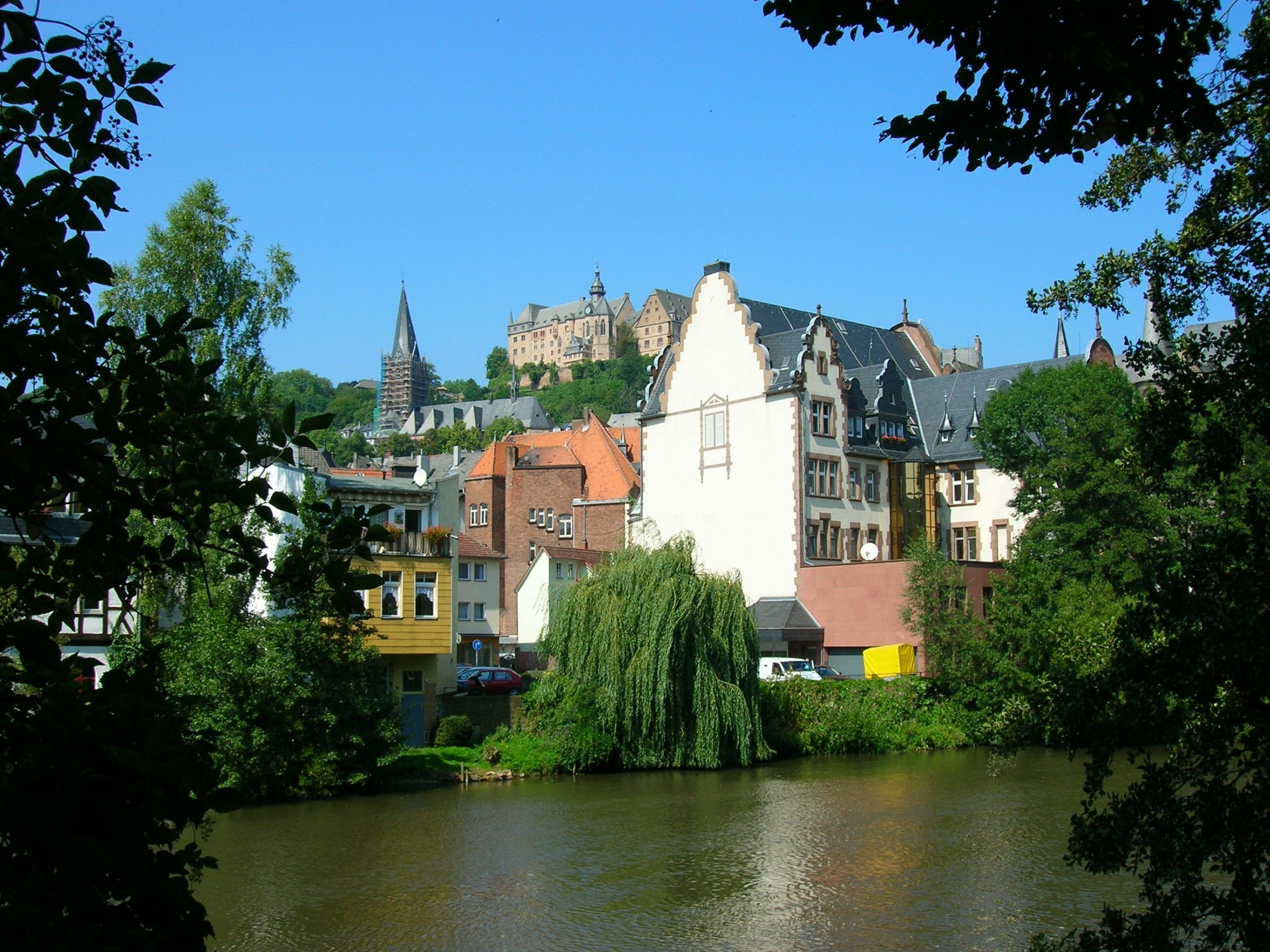 This is a photograph of Marburg, Germany on the Lahn River.